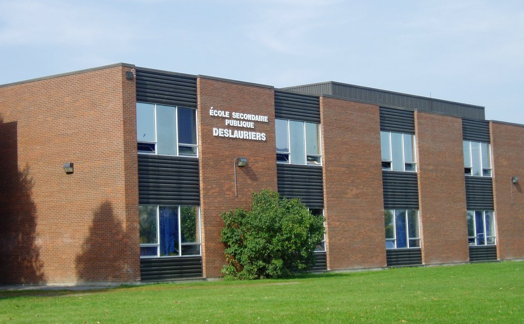 Taken by SimonP